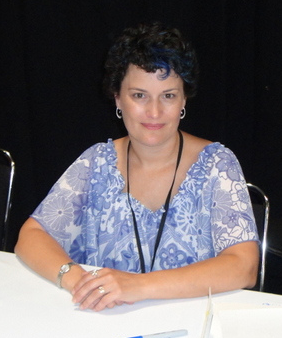 Television storywriter Amy Keating Rogers at the 2012 Summer BronyCon, cropped from File:Amy keating rogers bronycon summer 2012.jpg